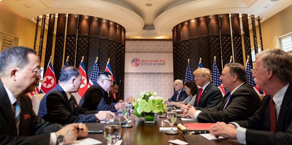 Bilateral meeting with respective delegations during the DPRK–USA Singapore Summit (2)